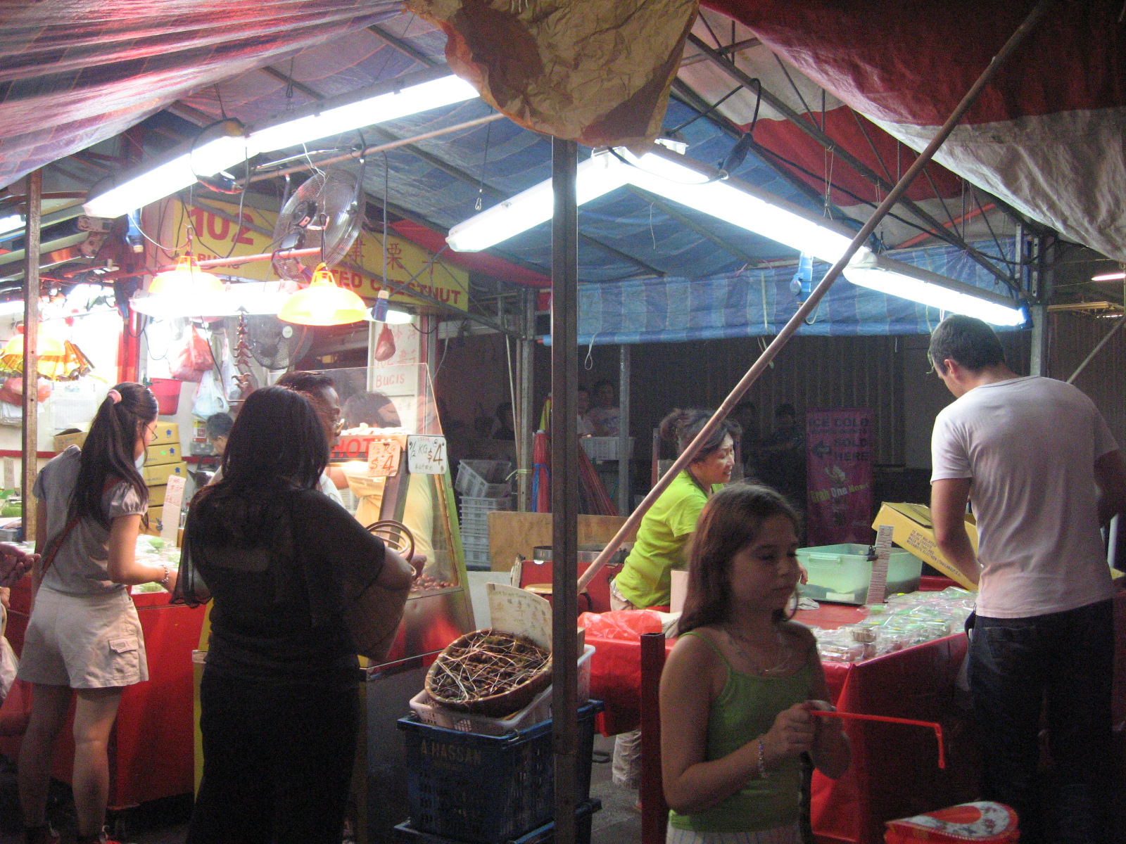 Mid-Autumn Festival in Chinatown, Singapore in 2006.